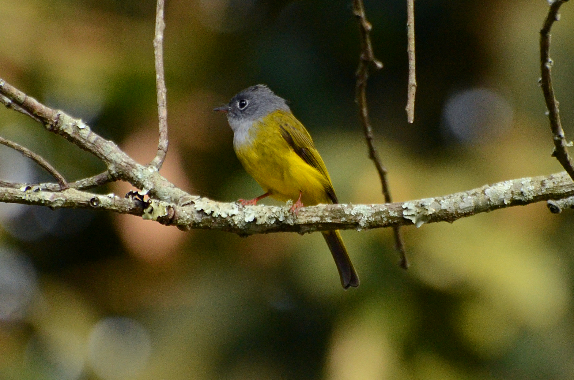 Grey-headed Canary Flycatcher Culicicapa ceylonensis from nilgiris